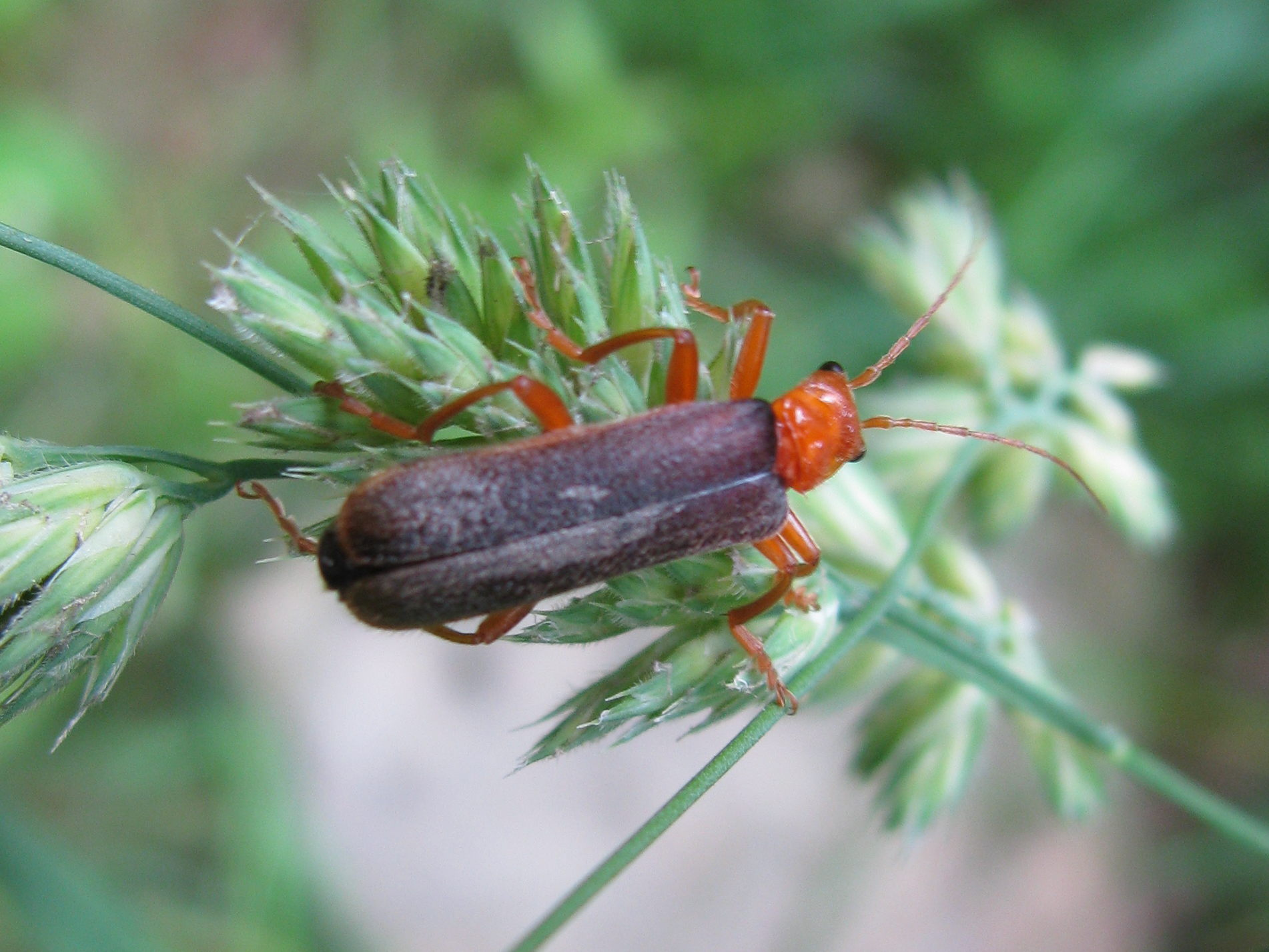 Photo of a soldier beetle (Cantharis rotundicollis).